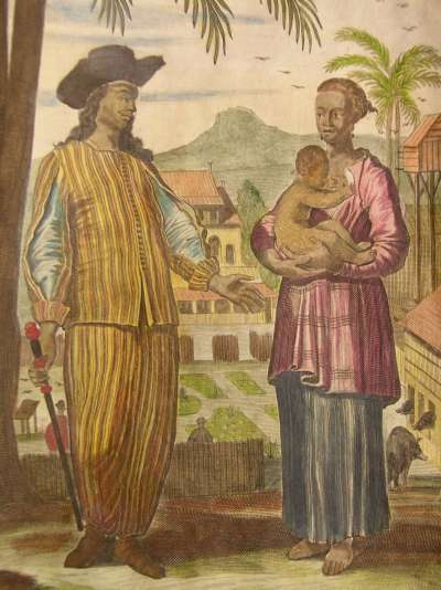 Mardijker_detail